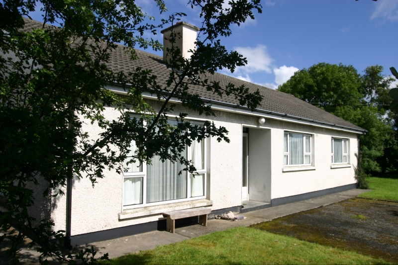 A typical coastal bungalow near Movie, Donegal, Ireland